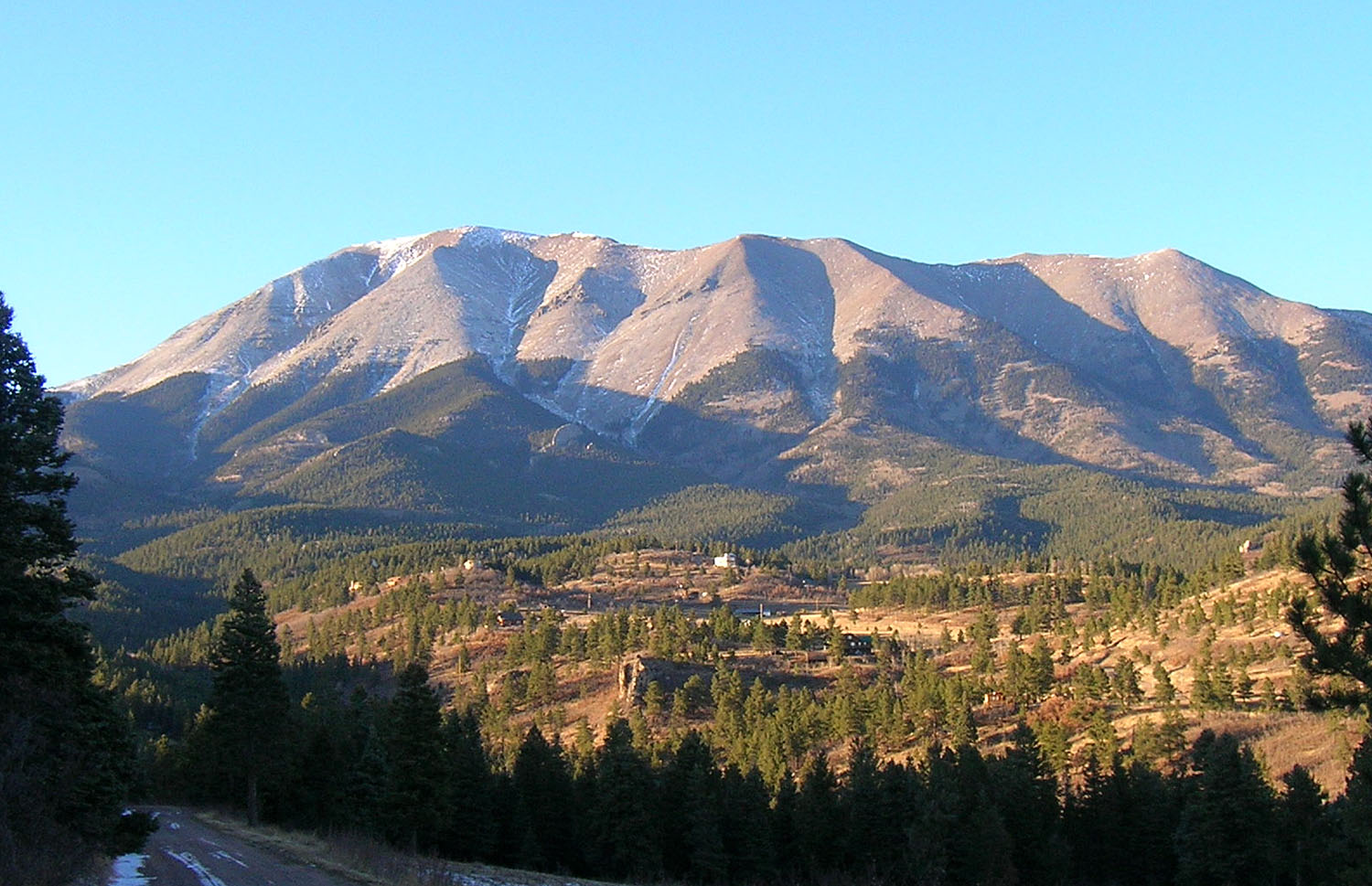 A southern view of the West Spanish Peak in the fall.